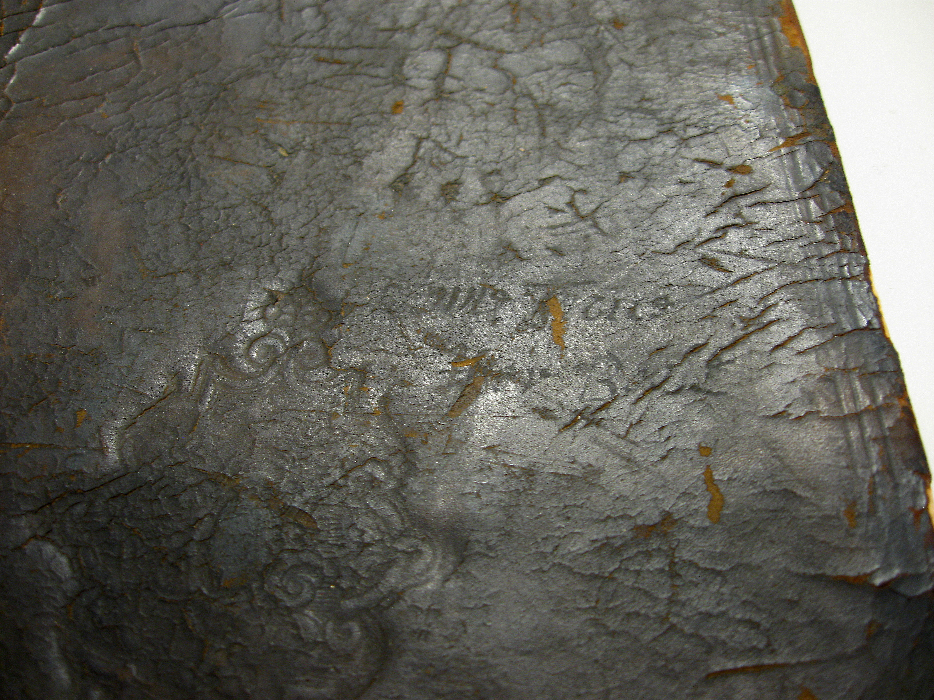 Close-up of Drexel 4175, a music manuscript which is an important source for seventeen-century English song, belonging to the New York Public Library, showing the inscription "Ann Twice Her Book."